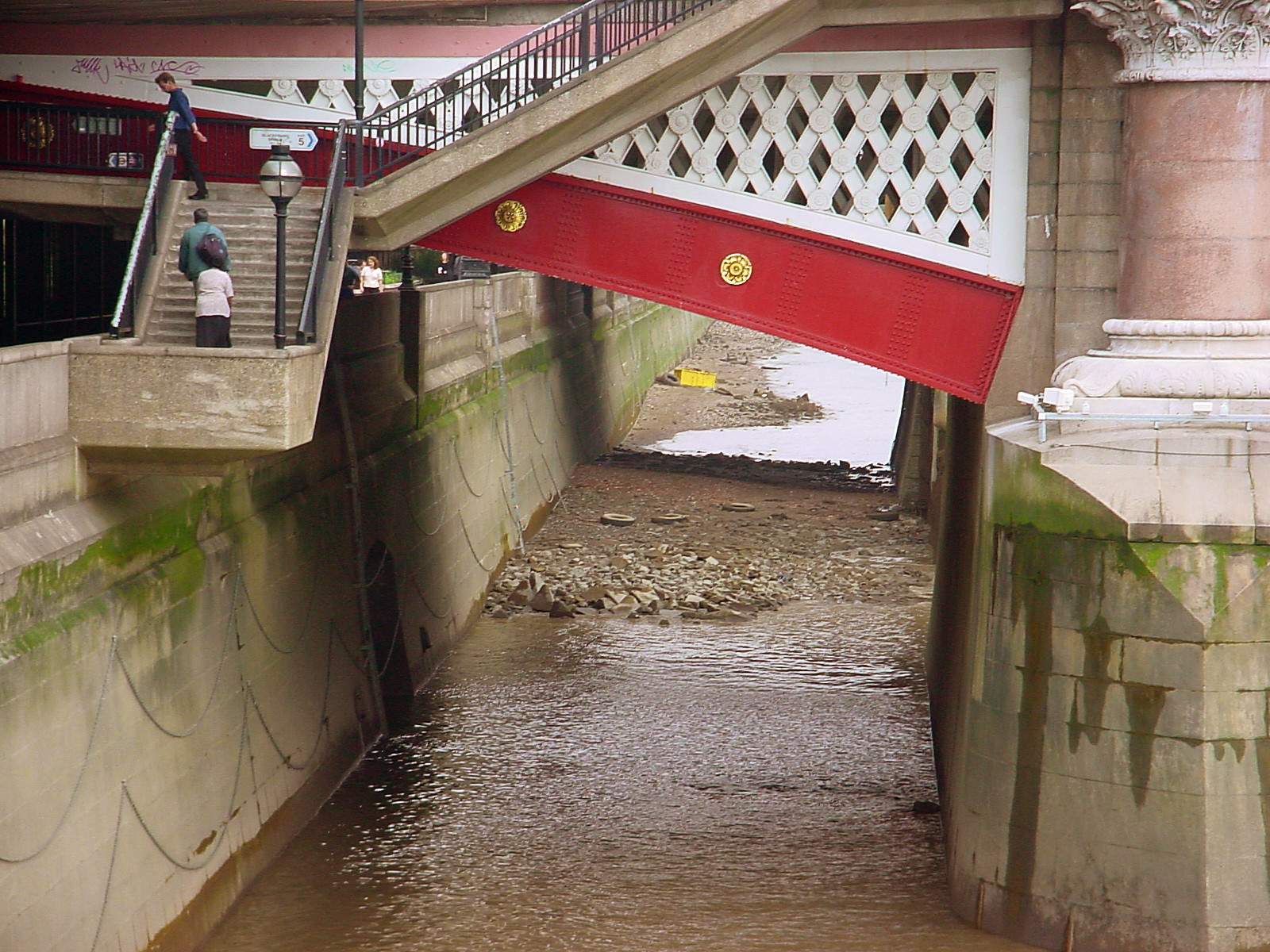 The mouth of the River Fleet, entering the River Thames beneath the Blackfriars Bridge, London.